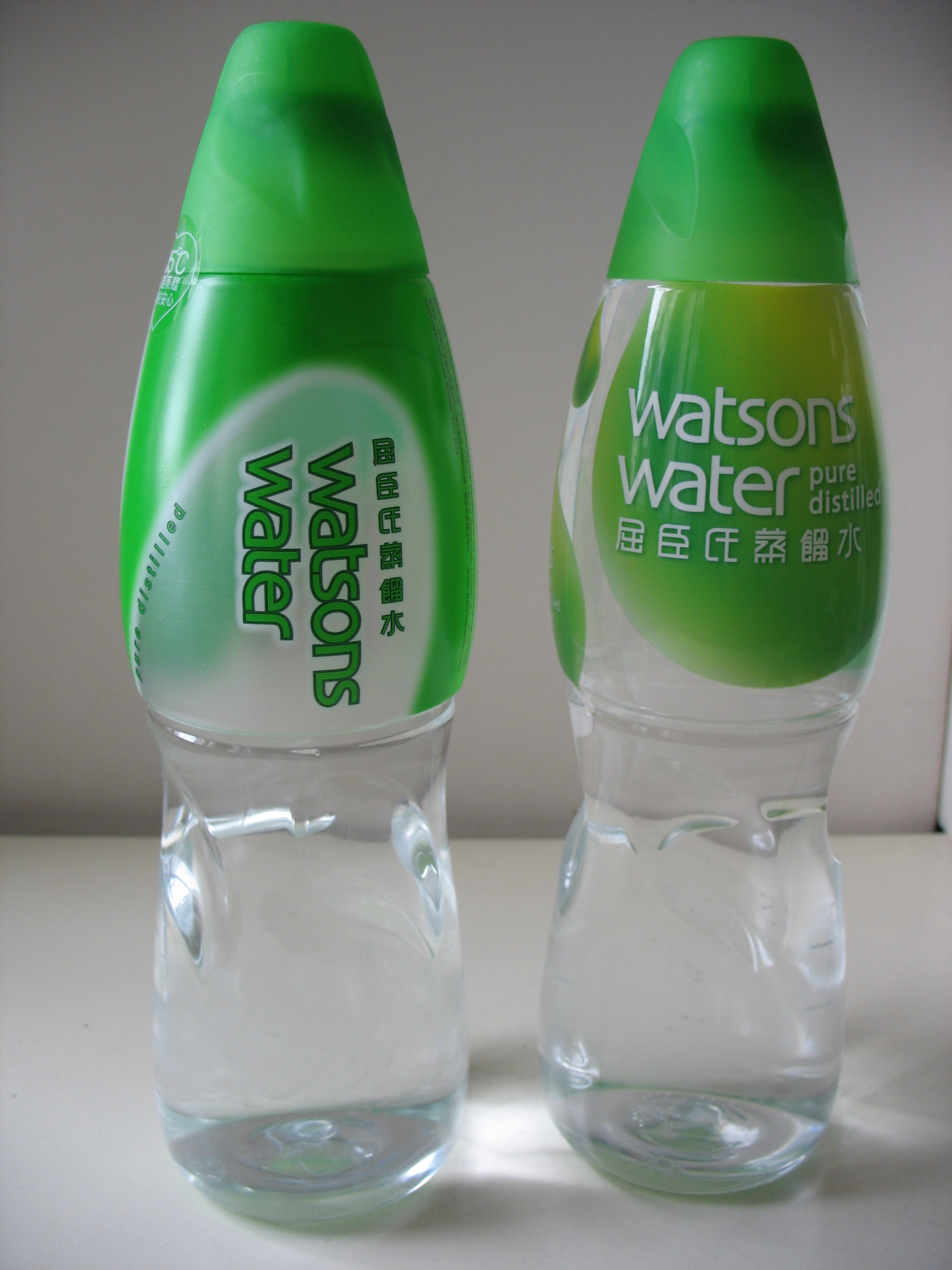 New and old 800mL bottle of Watsons Water from Hong Kong